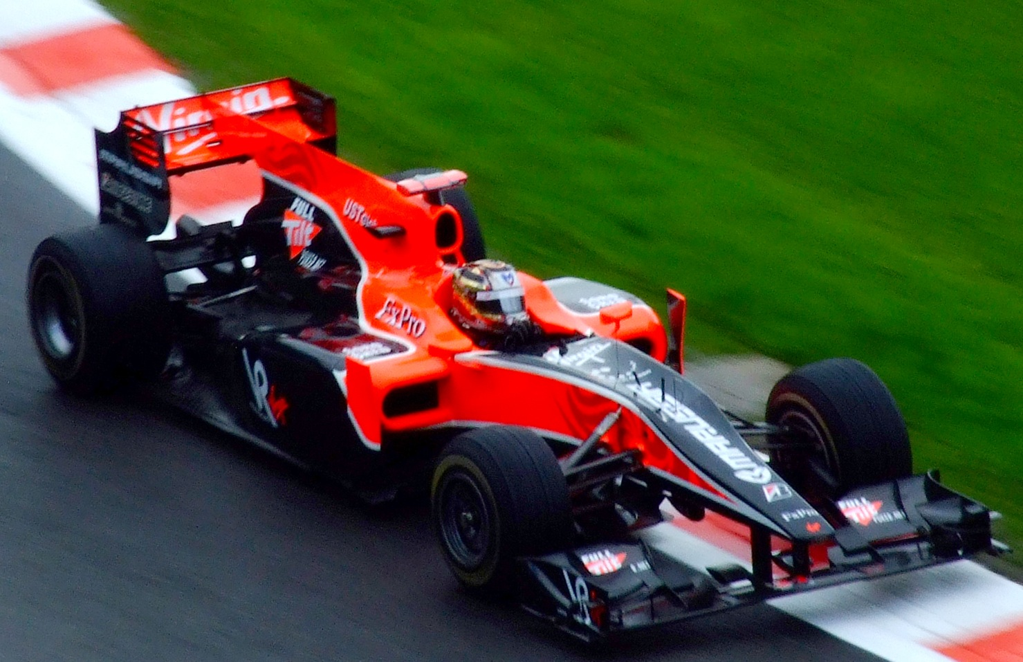 Timo Glock, Virgin Racing VR-01, entering Pouhon, Spa-Francorchamps, Second Practice, 2010 Belgian Grand Prix.